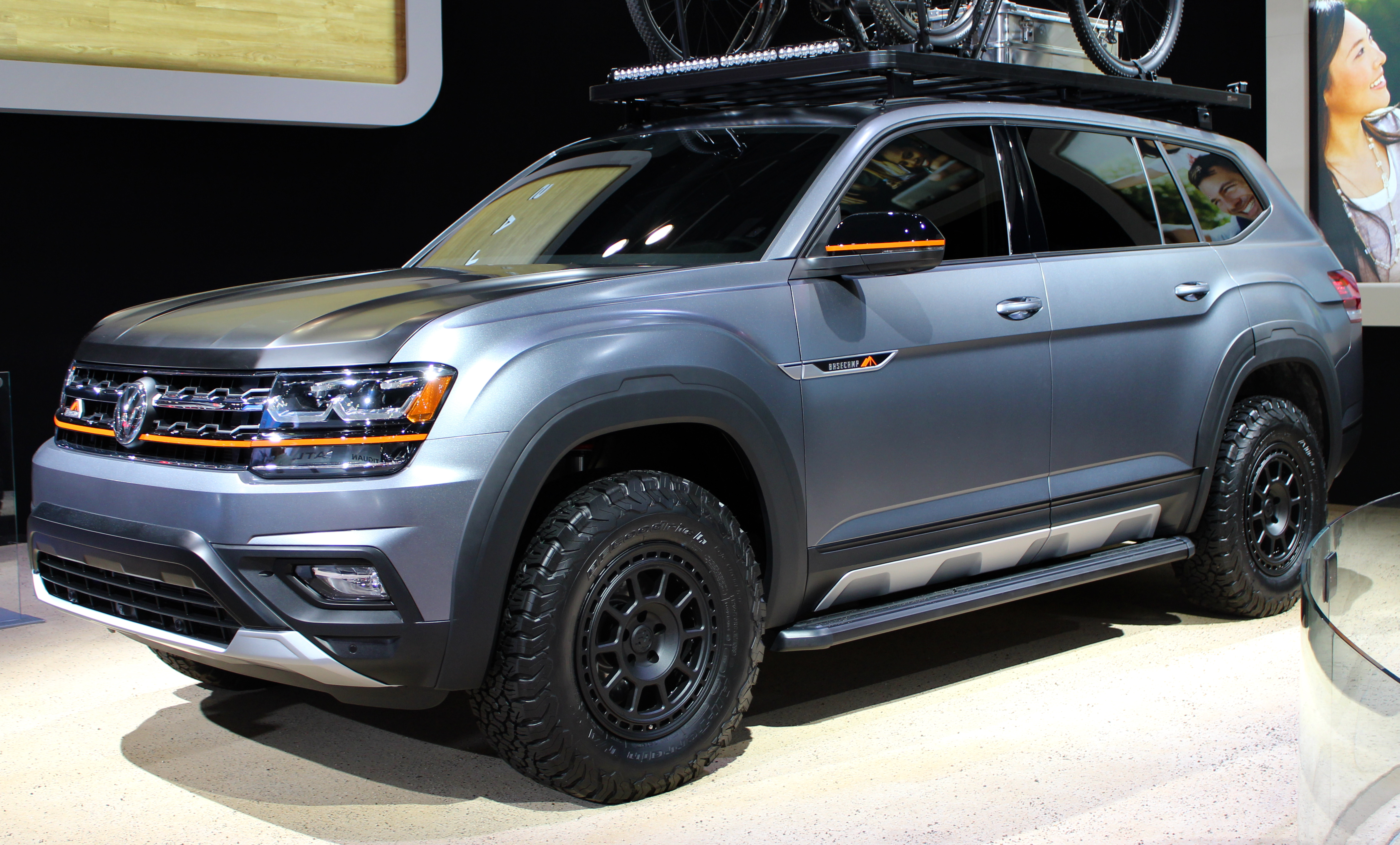 A 2019 Volkswagen Atlas Basecamp Concept photographed during the 2019 New York International Auto Show, in Hudson Yards, Manhattan, NYC